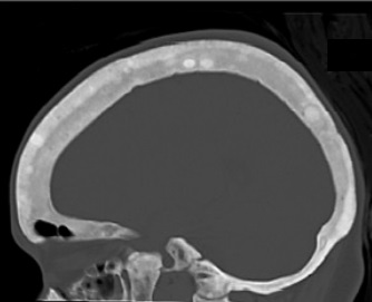 Renal osteodystrophy: CT scan shows multicentric sclerotic lesions, that may represent focal areas of osteosclerosis related to secondary hyperparathyroidism.